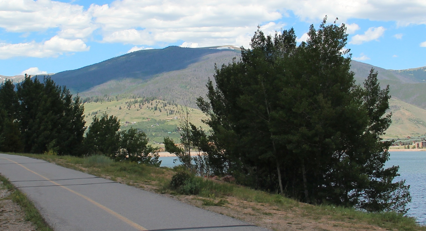 Ptarmigan Peak viewed from Dillon Reservoir